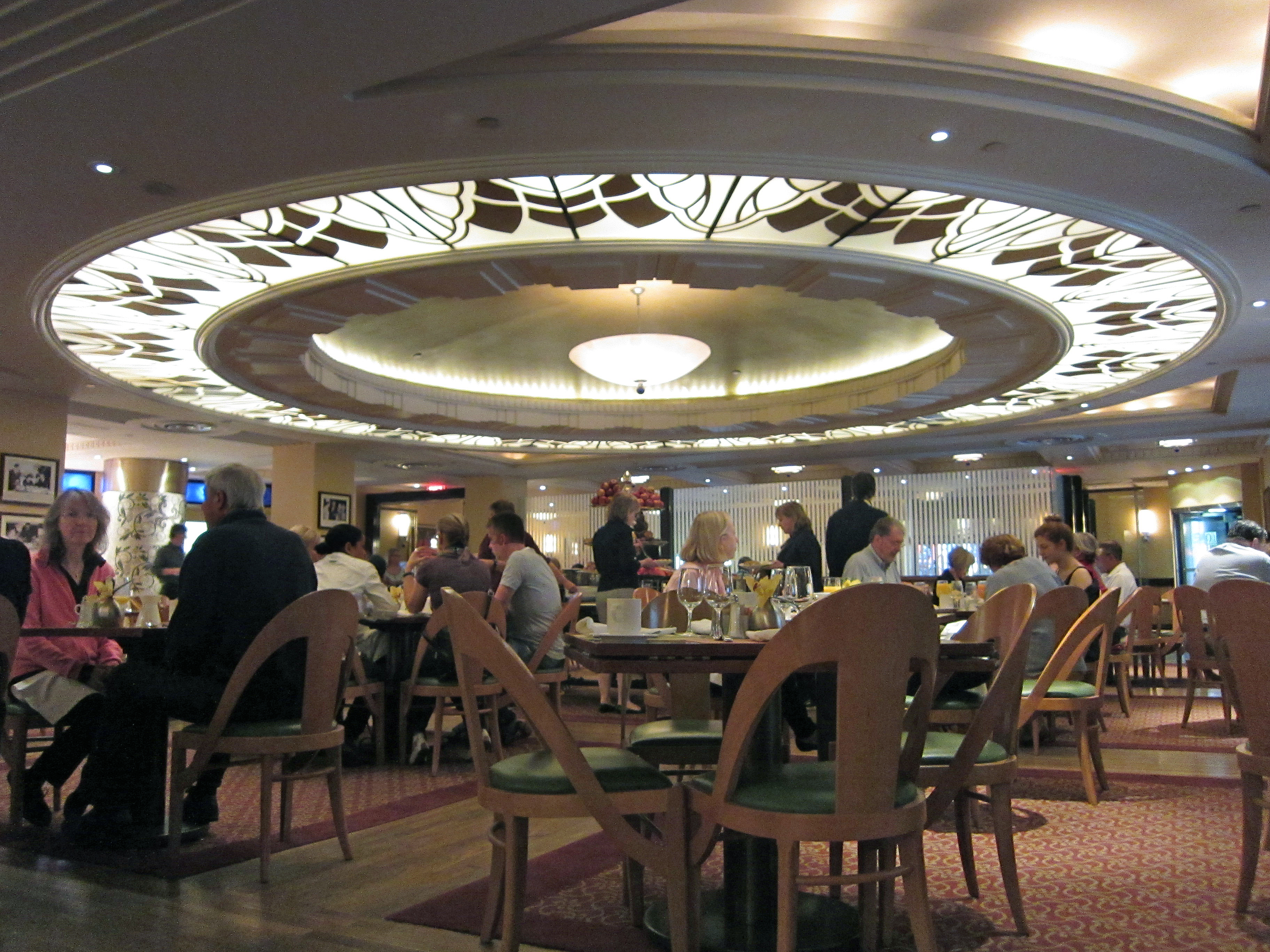 May 10, 2014 breakfast at the Waldorf-Astoria, New York City.